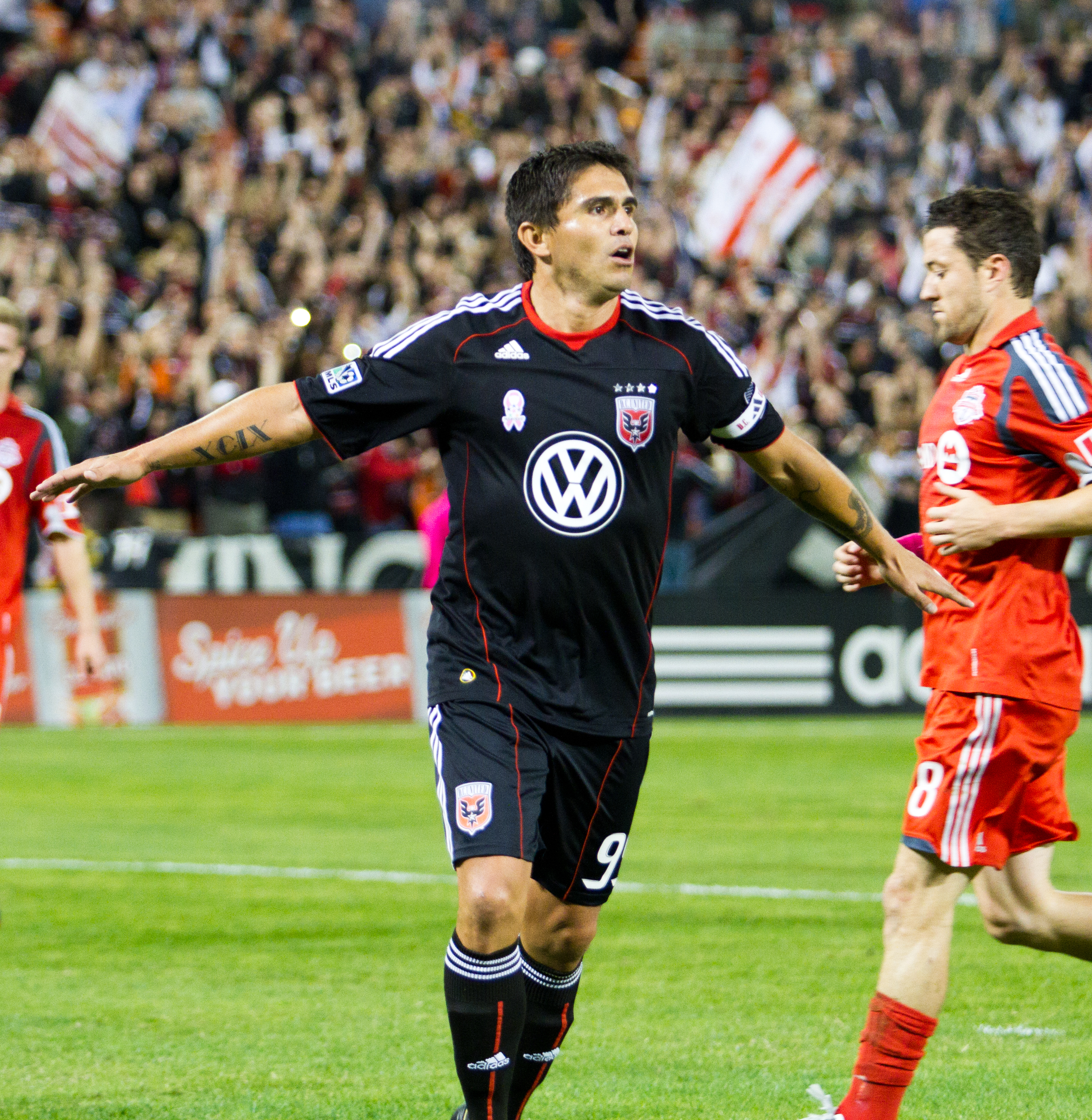 D.C. United legend, Jaime Moreno celebrating his 133rd career goal during his final match before retirement. The match against Toronto FC on October 23, 2010 at RFK Stadium in Washington, D.C. resulted in a 3-2 loss for United.